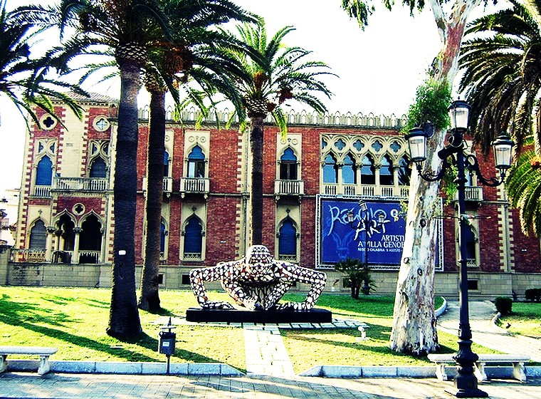 Co-stell-azione, 2002, by Rabarama in Reggio Calabria